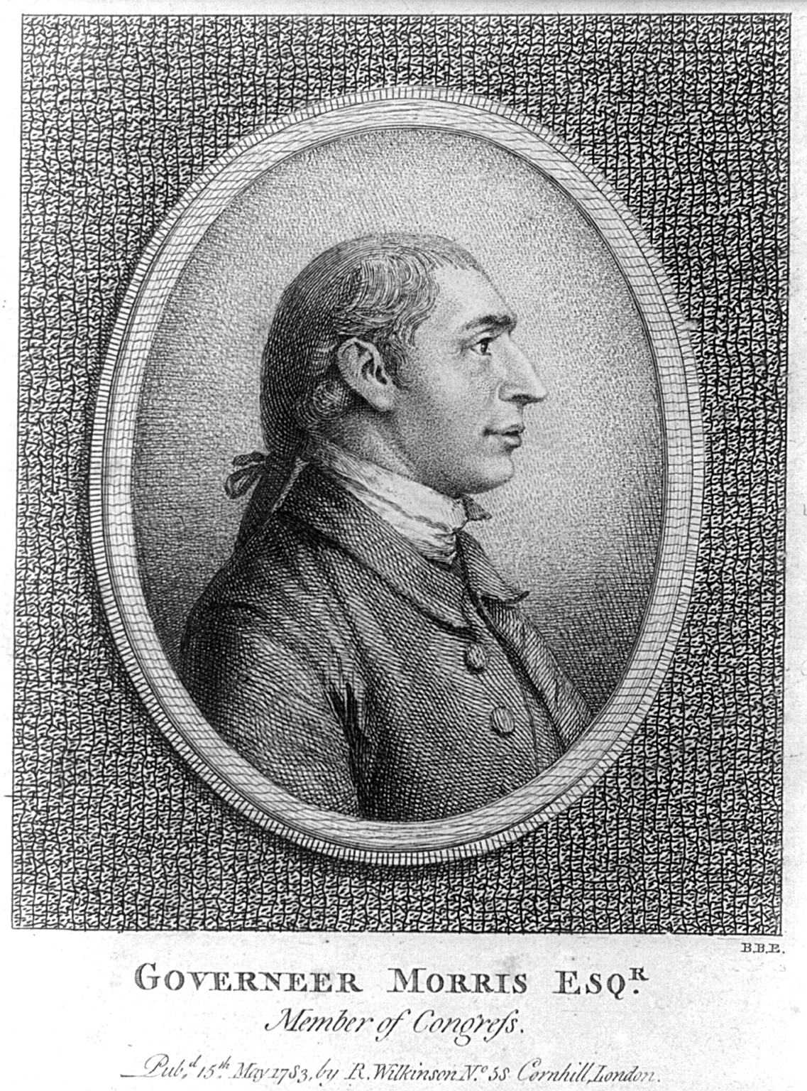 Illus. in: Portraits of generals, ministers, magistrates, members of Congress, and others, who have rendered themselves illustrious in the revolution of the United States of North America / Du Simitière. London : R. Wilkinson and J. Debrett, 1783, no. 9.